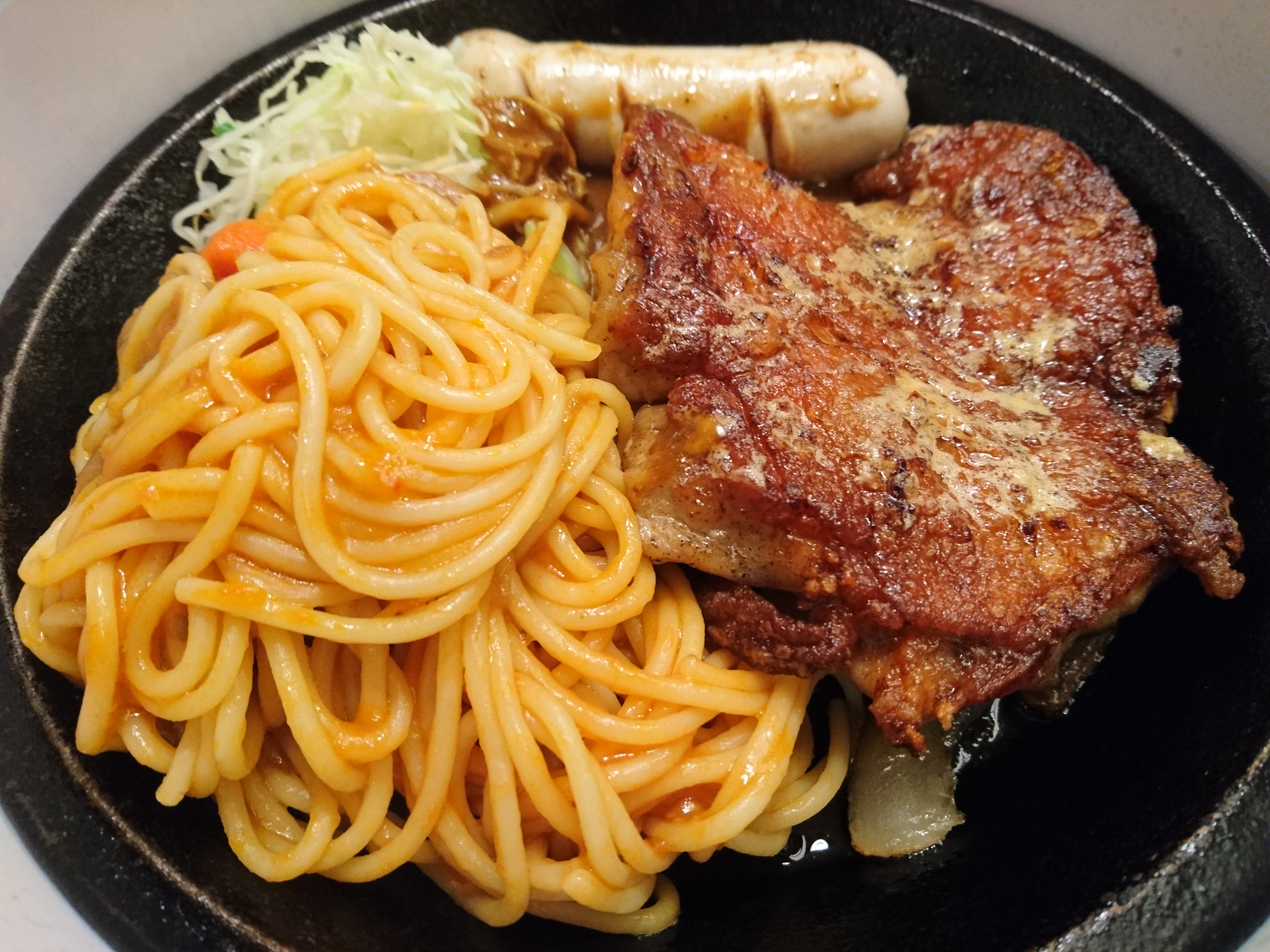 Chicken Fillet and Veal Sausage with Spaghetti in Tomato Sauce